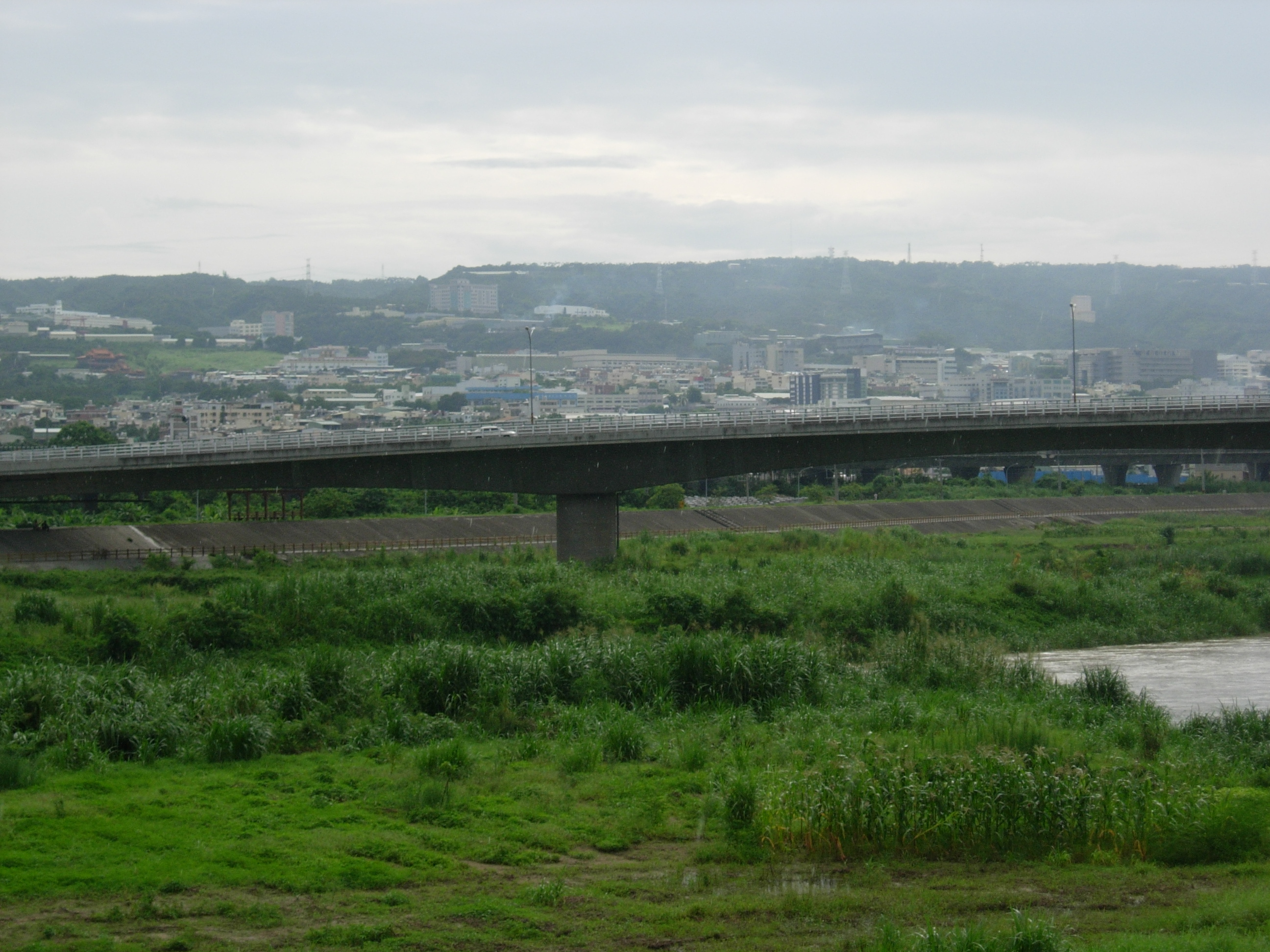 NantouCityNangangAreaView